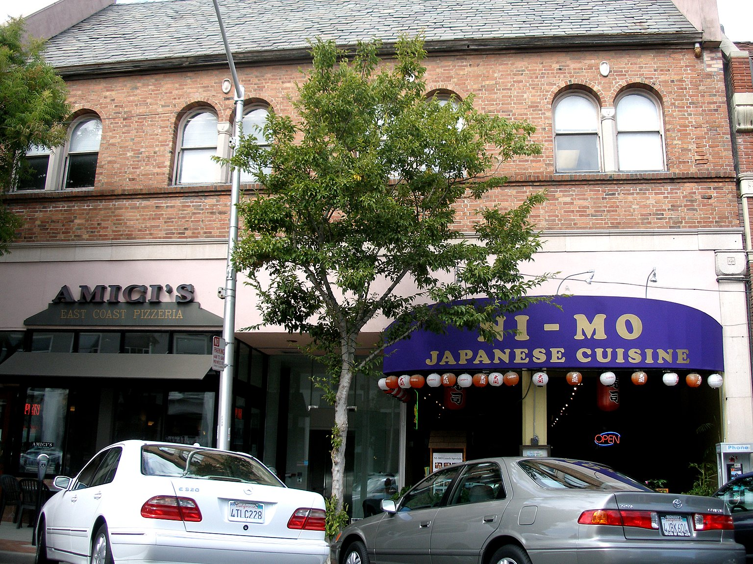 Until October 2006, the headquarters of YouTube were on the second floor of this modest brick building in downtown San Mateo, California. The first floor is occupied by a pizzeria and a Japanese restaurant. The YouTube entrance is the small door between the two restaurants. Right before YouTube agreed to become part of Google, it moved out of the loft and into a real office building in nearby San Bruno, California. Photographed by user Coolcaesar on October 2, en:2006.